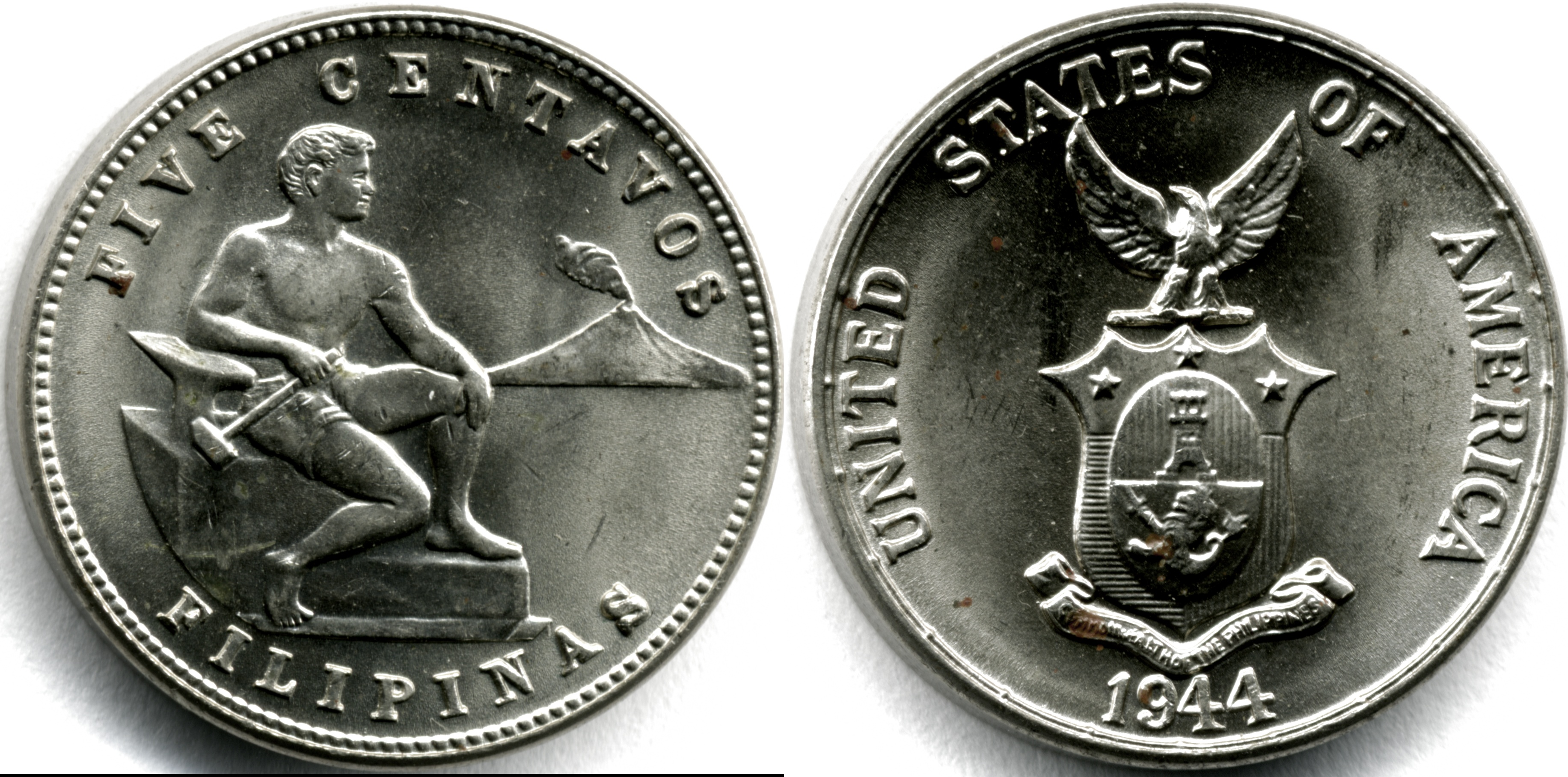 1944 Philippine five centavos